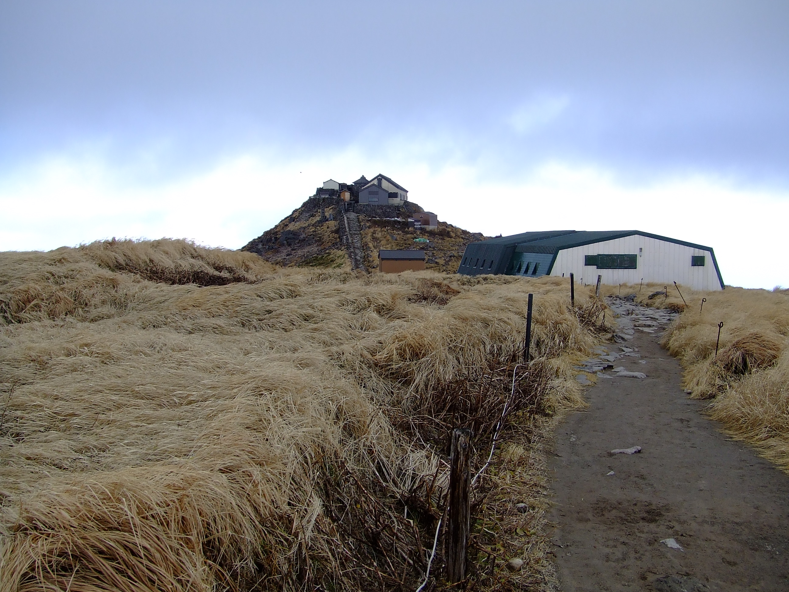 This is a photo of the shrine on the summit of Mt. Gassan in Yamagata Prefecture, Japan. I took this photo with a digital camera on 28th October 2006.